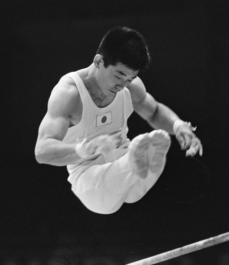 Yukio Endo at the 1966 World Championships